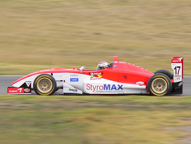 Australian Formula 3 race car number 17 driven by Chris Gilmour at Round 5 of the 2006 Australian Drivers' Championship at Malalla Motorsports Park